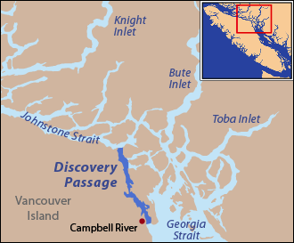 This is a locator map of Discovery Passage. I, Pfly, made it with ArcGIS, Adobe Illustrator, and Adobe Photoshop. The coastline data is from the Digital Chart of the World.